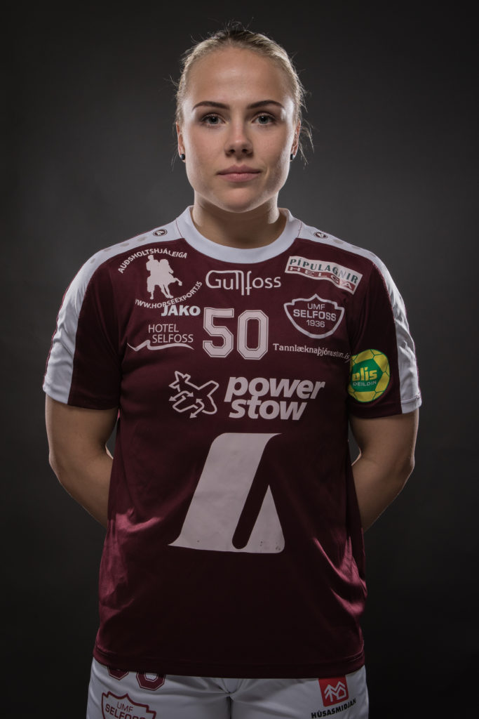 Picture of Perla Albertsdóttir